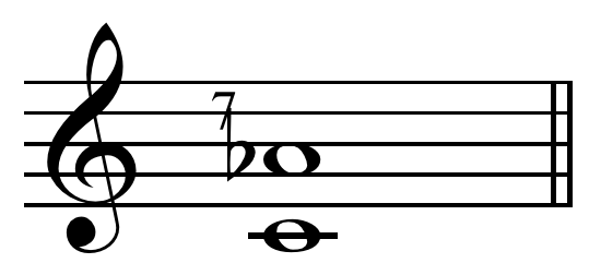 Septimal minor sixth on C = A♭ (Ben Johnston's notation). 14:9 = 764.92 cents. Limit: 7-limit.